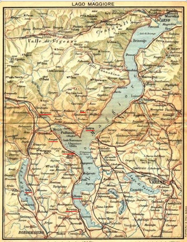 Old Map of Lago Maggiore (1930) in Italy, with mention of the places where Jews were killed in 1943 (underlined in red).